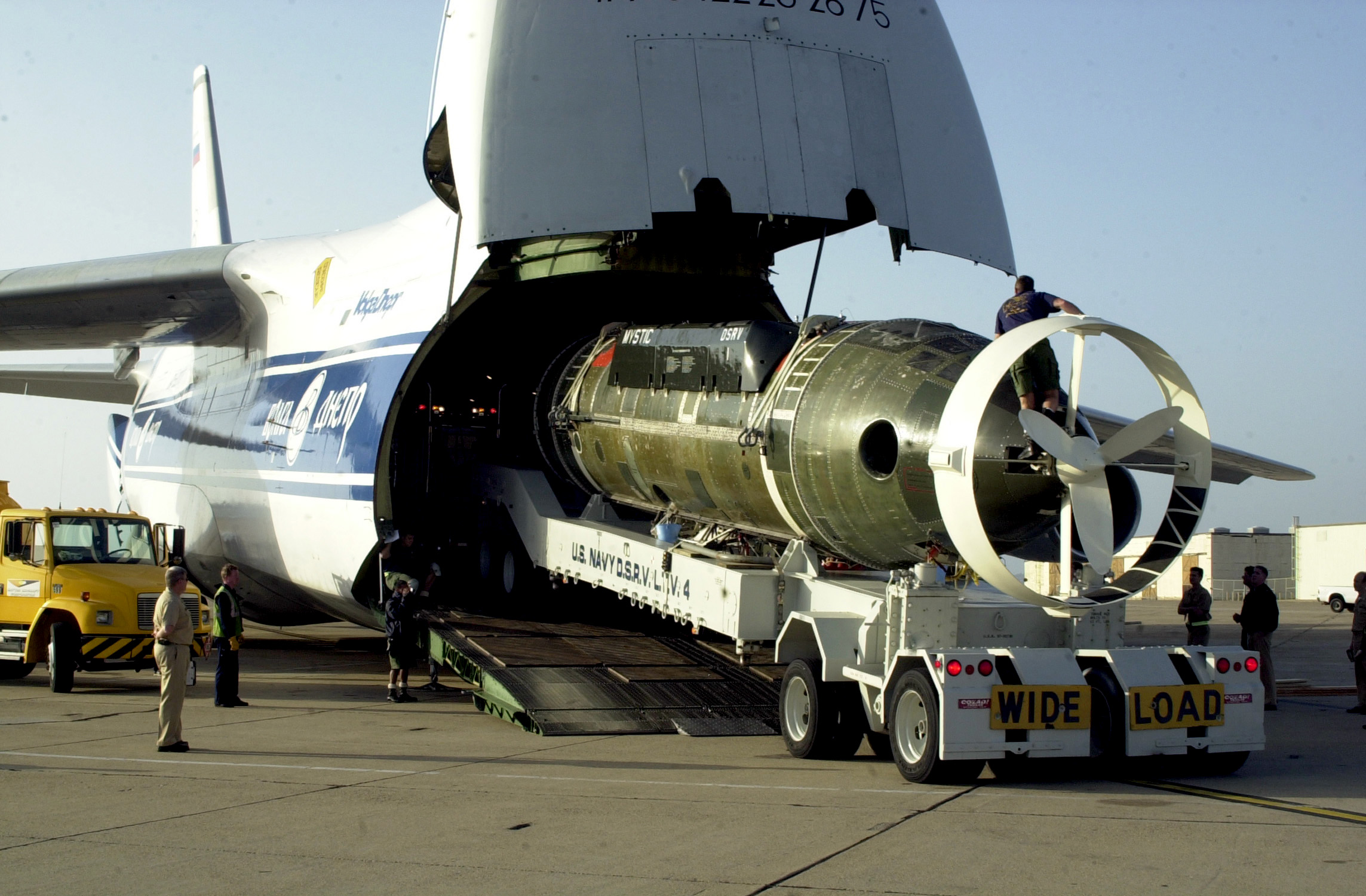 Naval Air Station North Island, Calif. (Apr. 29, 2004) - The Deep Submergence Rescue Vehicle Mystic (DSRV 1) is carefully loaded onto a Russian-built An-124 Condor (Antonov) by Sailors assigned to the U.S. Navy's Deep Submergence Unit (DSU) and the aircraft's crew. The An-124 is owned and operated by the Volga-Dnepr Group based in Russia. The Mystic and 13 members of her crew are being flown to the Republic of Korea to participate in Exercise Pacific Reach. The exercise improves submarine rescue capabilities and also fosters a familiarization between different nations with submarine rescue techniques.